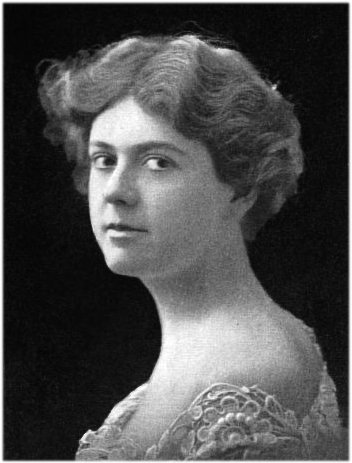 Actress Clara Blandick, circa 1903, when she appeared in the play Raffles. However, her most memorable role was in the 1939 film version of The Wizard of Oz as Auntie Em.